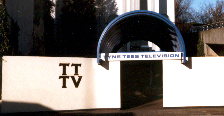 The Tube entrance, at Tyne Tees Television's City Road complex in Newcastle; image created by John-Paul Stephenson, January 1999